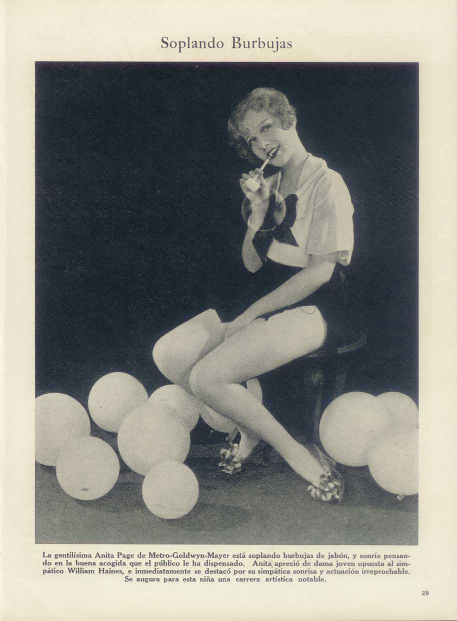 Publicity photo of Anita Page for Argentinean Magazine. (Printed in USA)